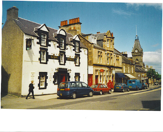 Auchterarder, Star Hotel. Auchterarder High Street in the sunshine - Star Hotel, Post Office and Town Hall.